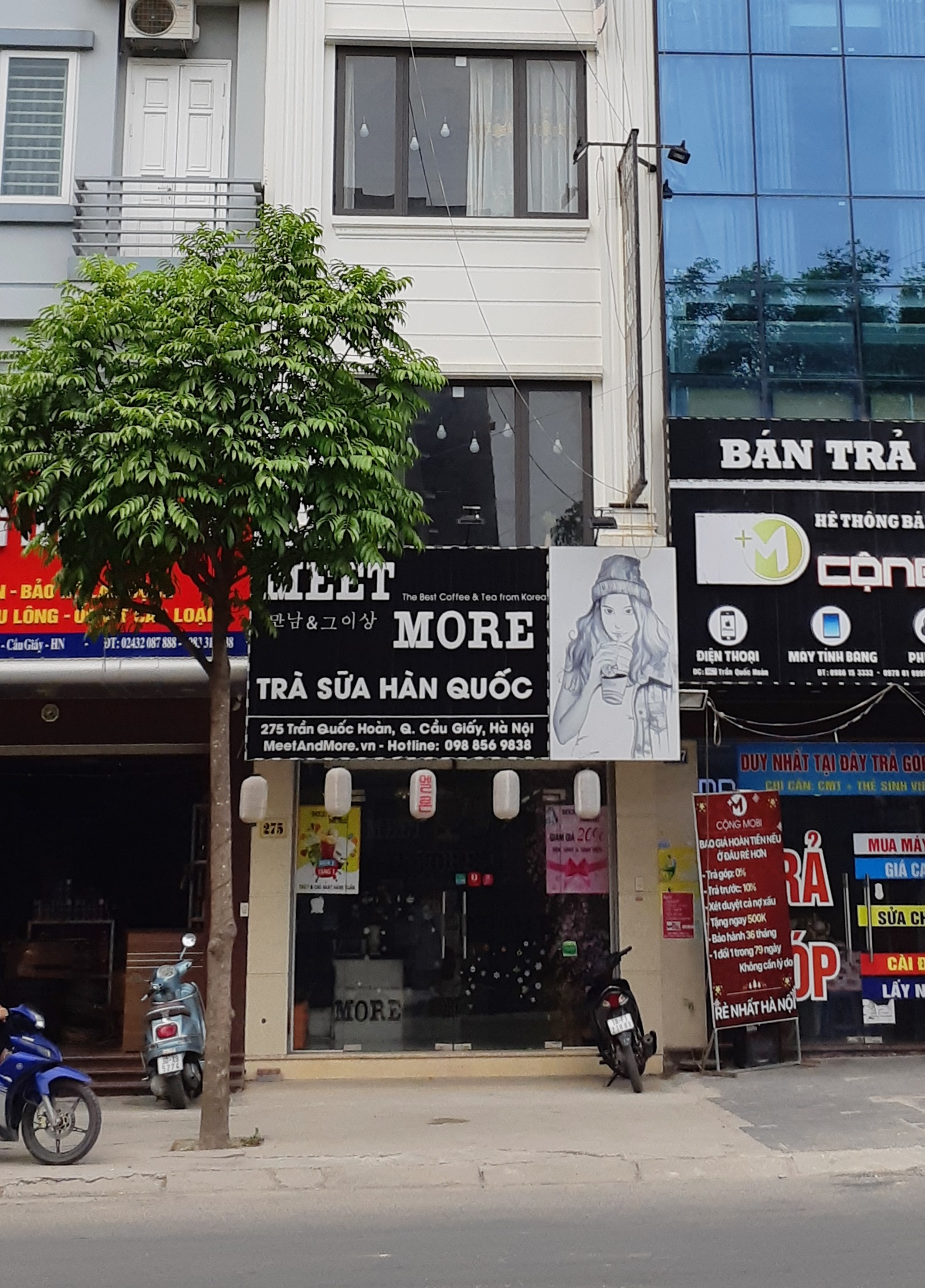 Meet and More (from South Korea), located at 275 Tran Quoc Hoan Road, Dich Vong Hau Ward, Cau Giay District, Hanoi, Vietnam.